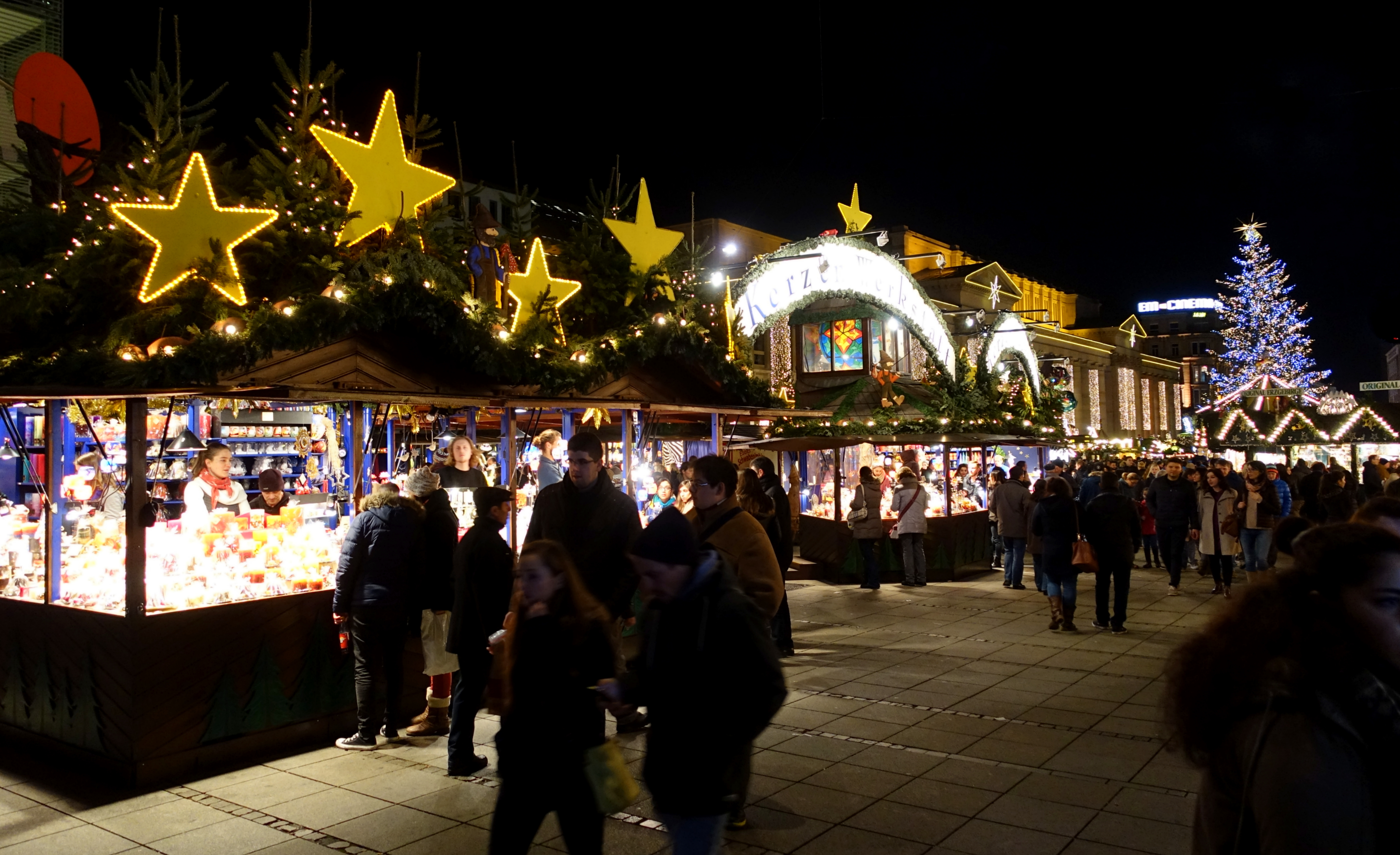 Christmas market 2015 - Stuttgart, Germany.